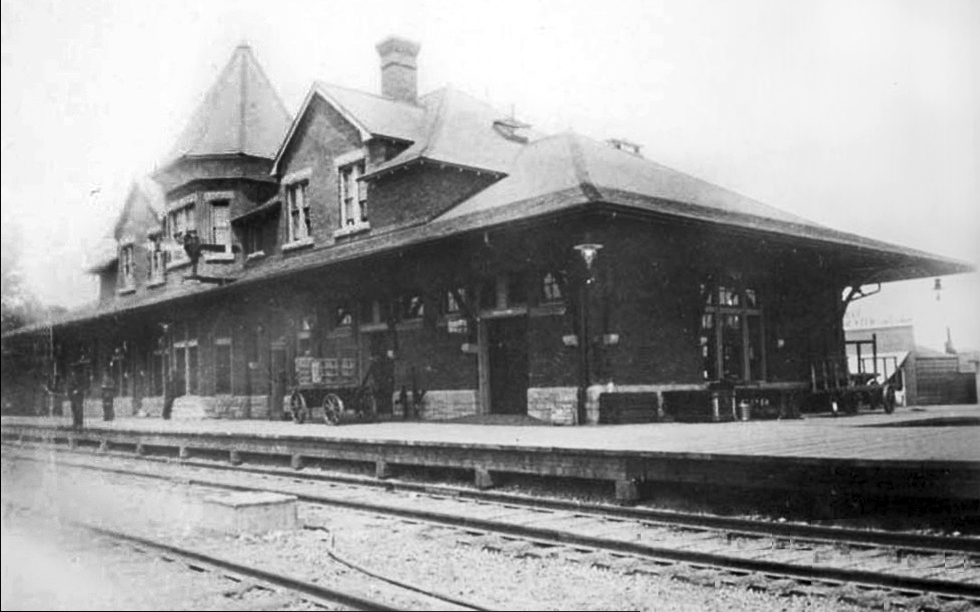 Fonds / Collection:Canadian Pacific Railway Company fonds Description: view of Medicine Hat Canadian Pacific Railway Station from the south west, from the track side (July 24, 1906) Date: July 24, 1906 Material Description: print: b&w People:No People Photographer:Not Determined Accession No.:0664.0001